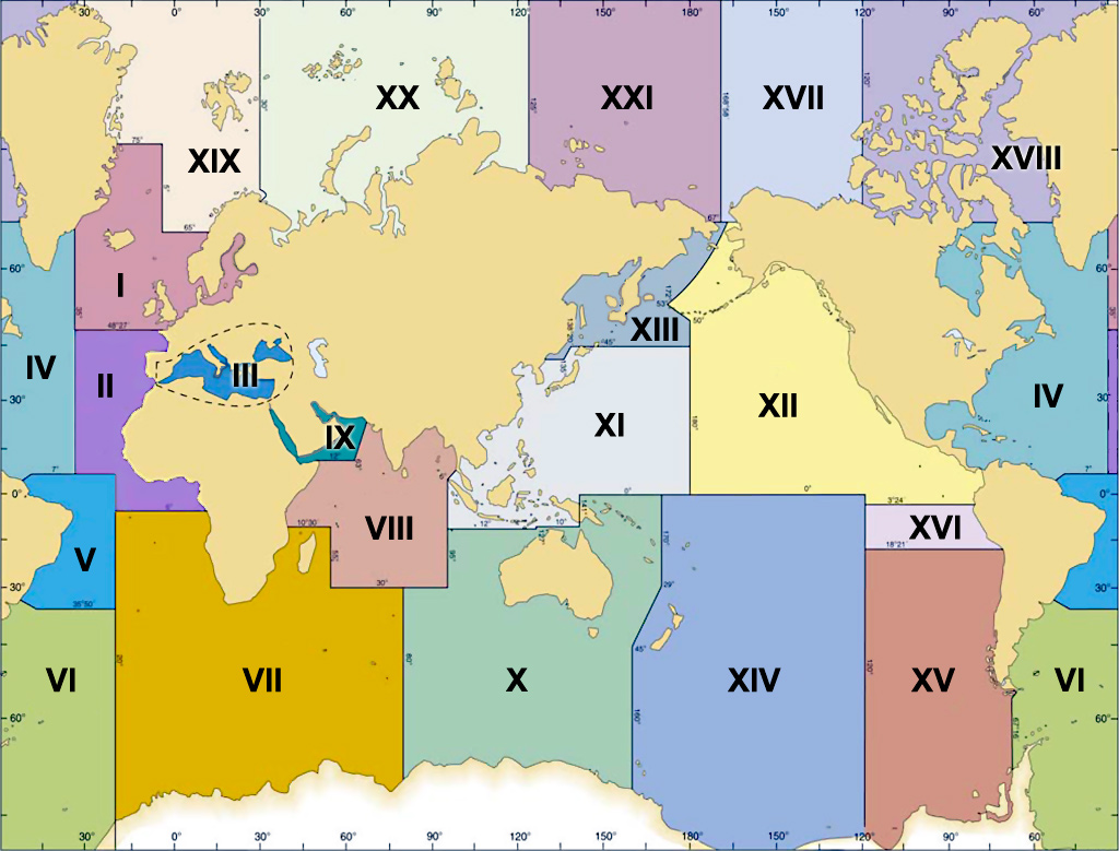 Map of the 21 NAVAREAS (or METAREAS) into which all the world's oceans are divided. Each serves to allocate responsibility for sending Marine and Safety Information (navigational and weather warnings) to ships at sea, as part of the GMDSS (Global Maritime Distress and Safety System). I – United Kingdom II – France III – Spain IV – United States V – Brazil VI – Argentina VII – South Africa VIII – India IX – Pakistan X – Australia XI – Japan XII – United States XIII – Russian Federation XIV – New Zealand XV – Chile XVI – Peru XVII – Canada XVIII – Canada XIX – Norway XX – Russian Federation XXI – Russian Federation